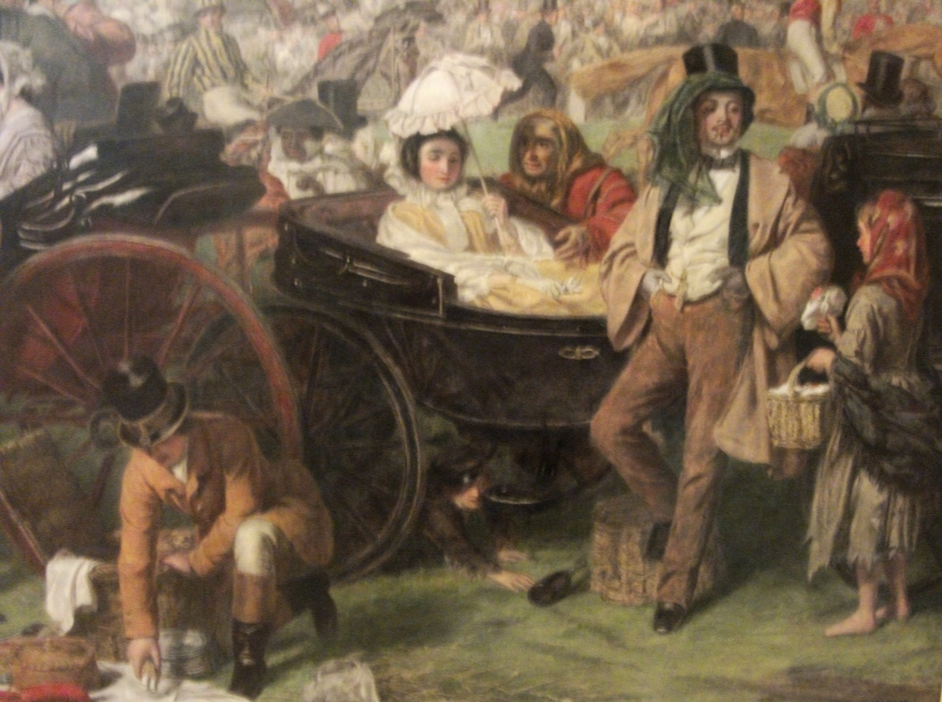 Manchester Art Gallery Native nameManchester Art GalleryLocationManchester, United KingdomCoordinates53° 28′ 43″ N, 2° 14′ 29″ W Established1824Web pagemanchestergalleries.orgAuthority control : Q2638817 VIAF: 147235012 ISNI: 0000 0001 2114 7683 ULAN: 500225336 LCCN: n80159134 NLA: 36244545 WorldCat institution QS:P195,Q2638817